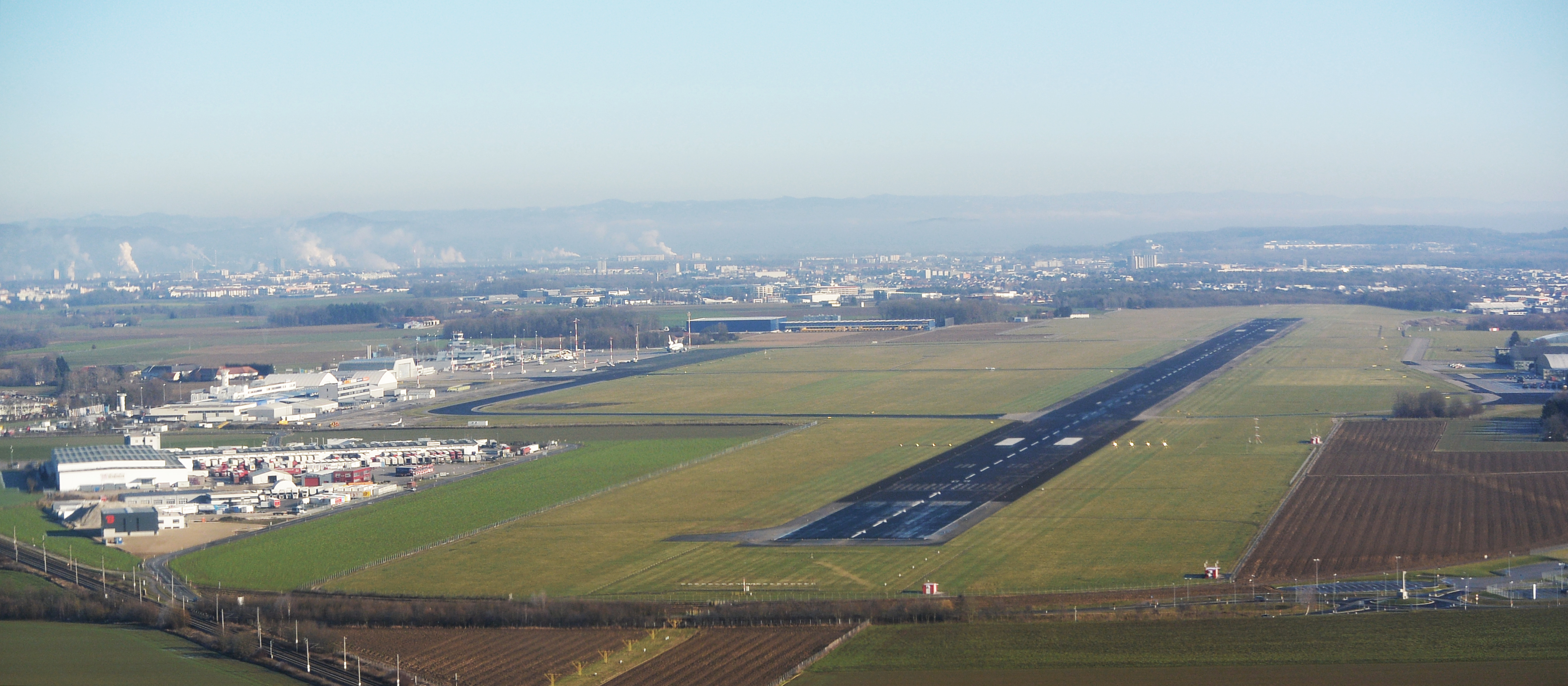 RWY 08 Linz Airport